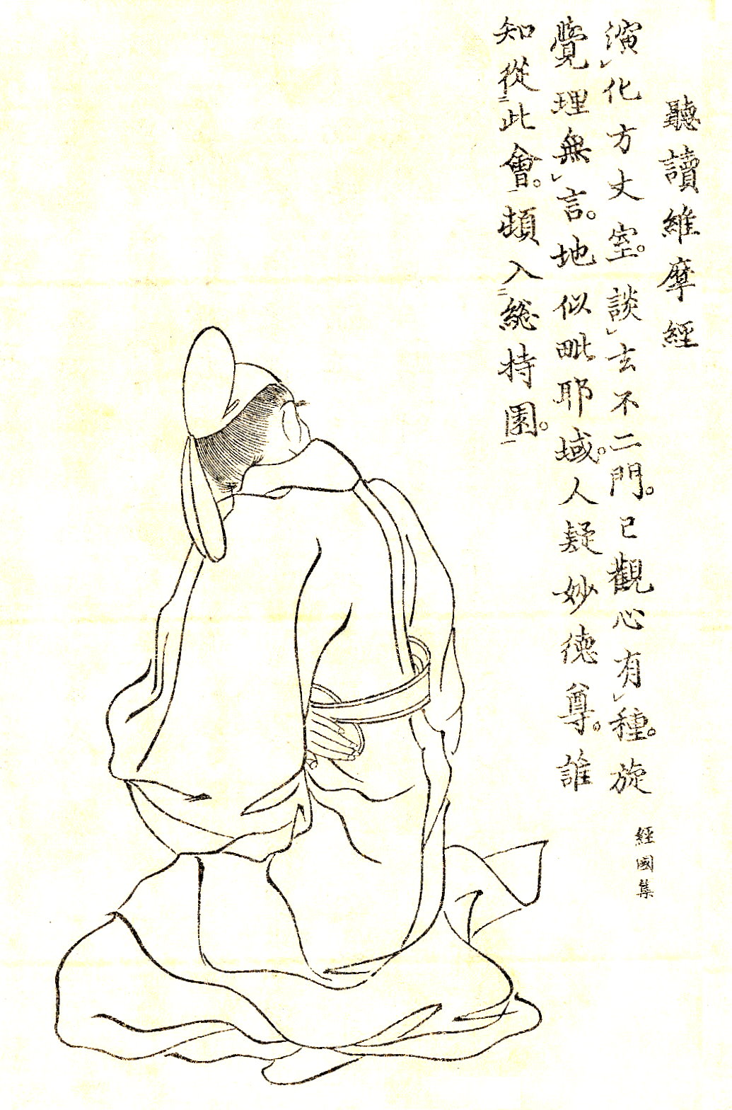 Oumi no Mifune(淡海三船) was a Japanese literary man and scholar in Nara period.